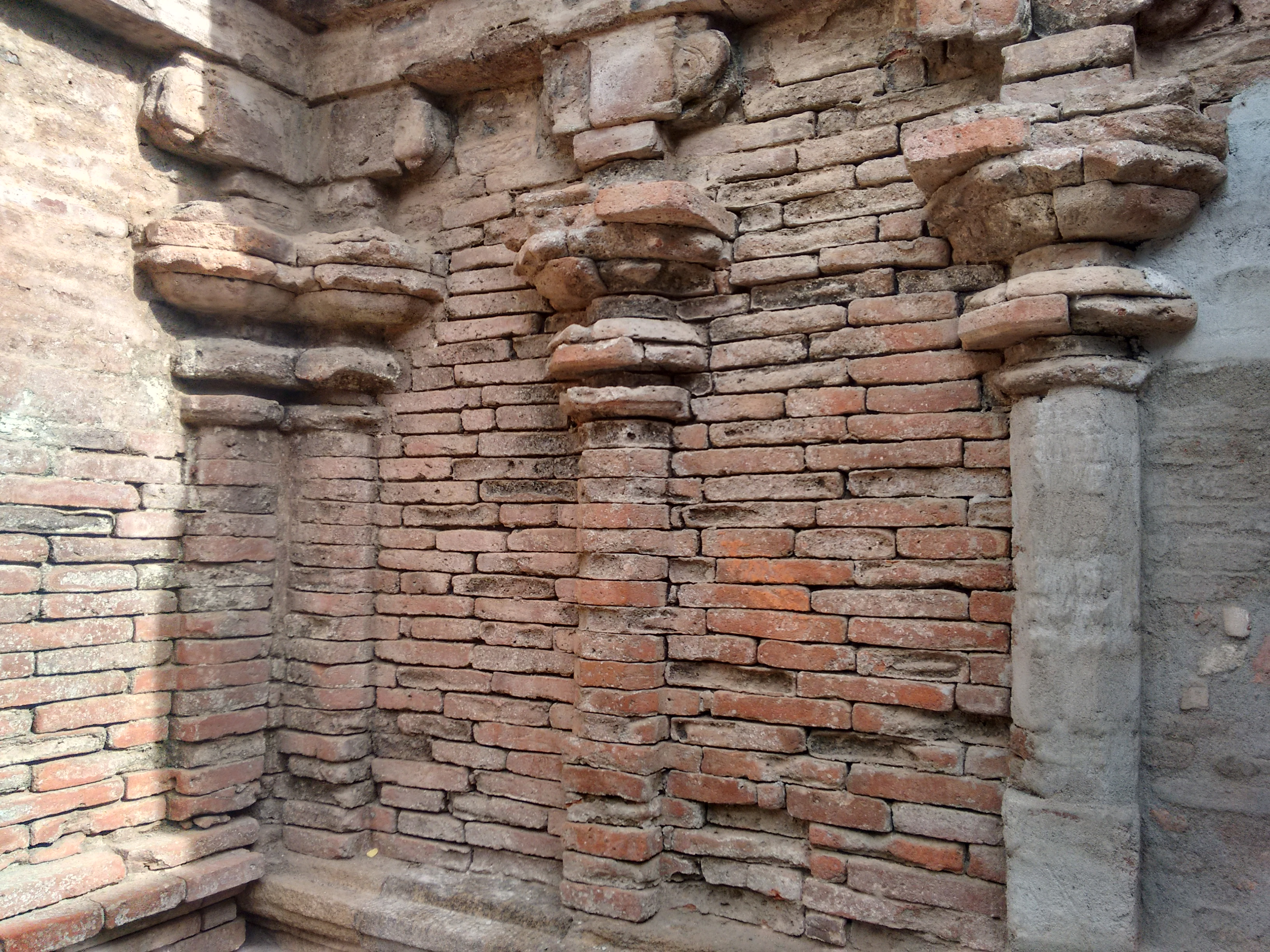 Pettai vinai theertha street visvanathasamy temple2 பேட்டைவினை தீர்த்த தெரு விசுவநாதசுவாமிகோயில்2